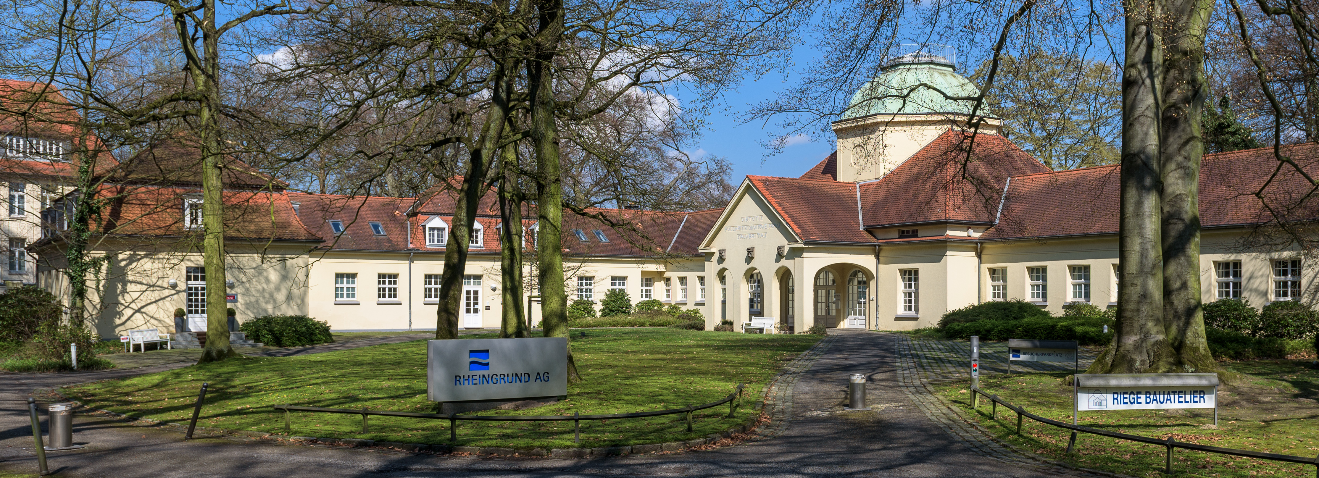 Former Solbad Raffelberg (brine bath))